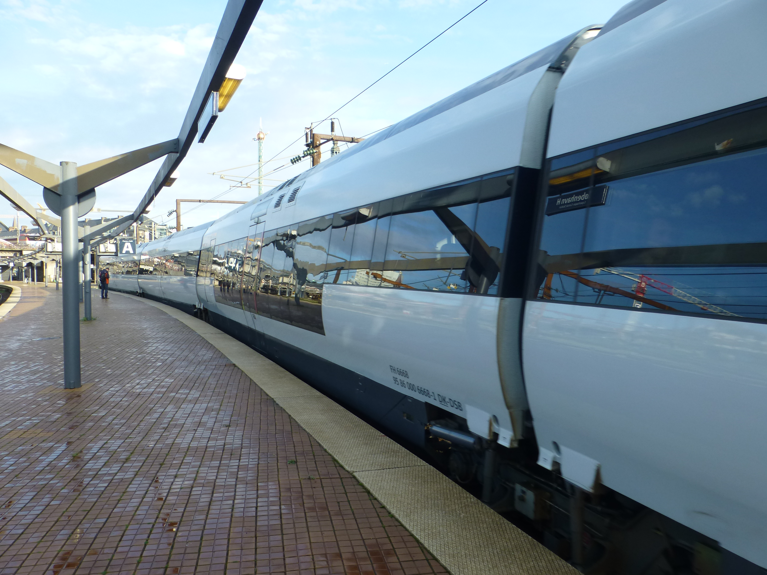 Diesel multiple unit DSB IC4 68 leaving Københavns Hovedbanegård (Copenhagen Central Station) in direction Kalundborg.